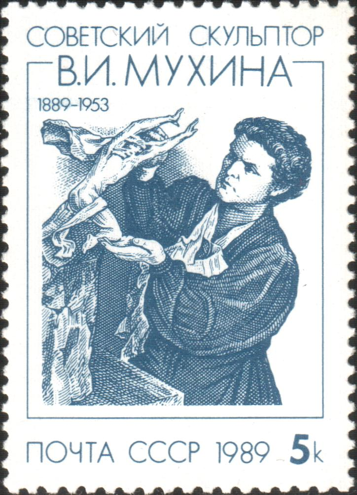 A USSR stamp